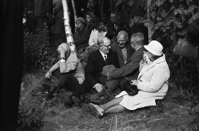 Red Guard veterans at the unveiling ceremony of the 1918 Finnish Civil War national Red monument "Crescendo" in Helsinki.